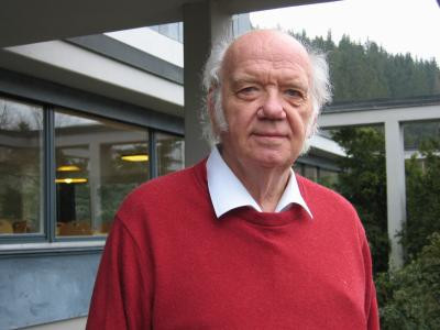 Mathematician Peter Jaques Roquette at a workshop on "The Arithmetic of Fields" in Oberwolfach, 2006.